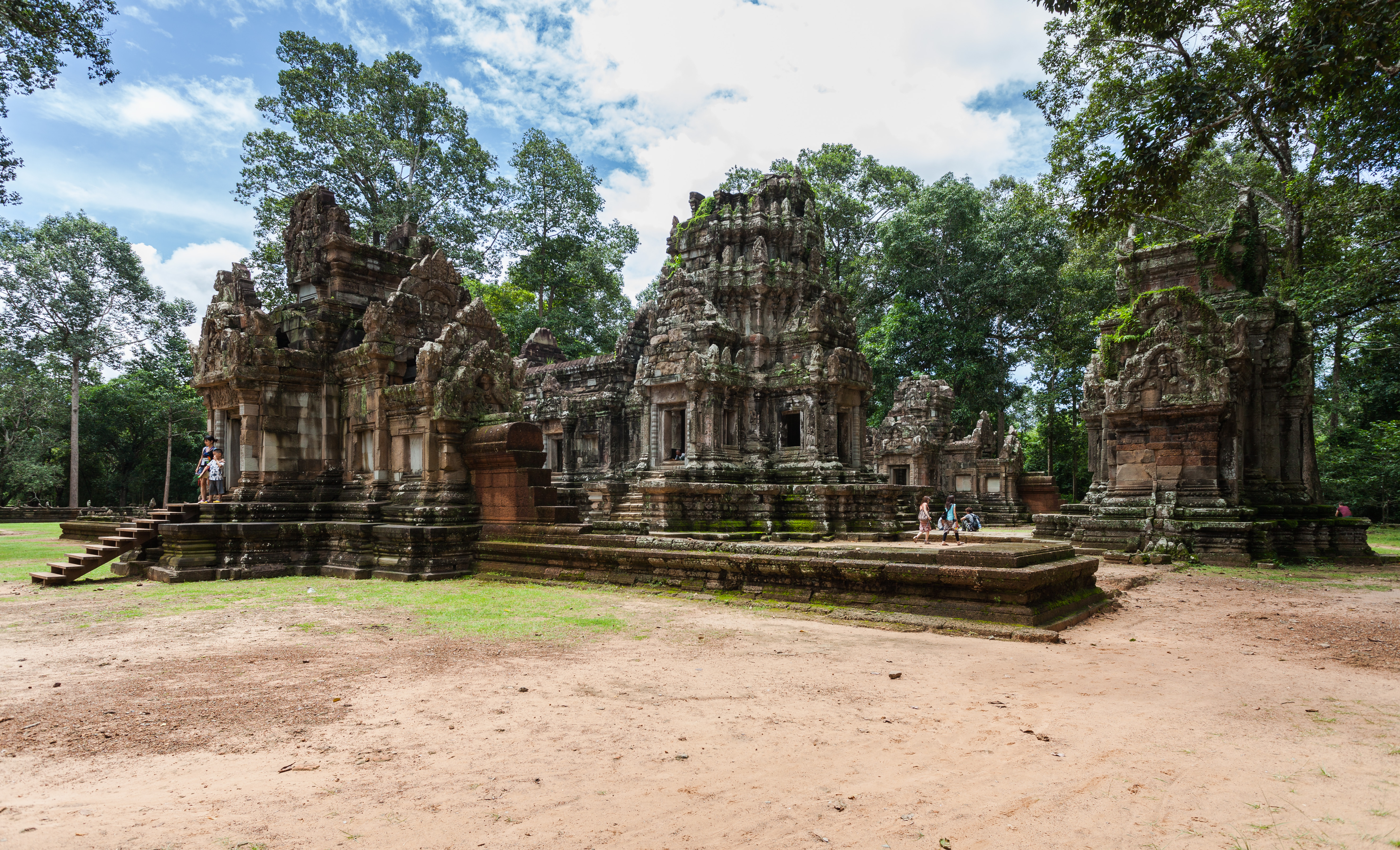 Chao Say Tevoda, Angkor, Cambodia